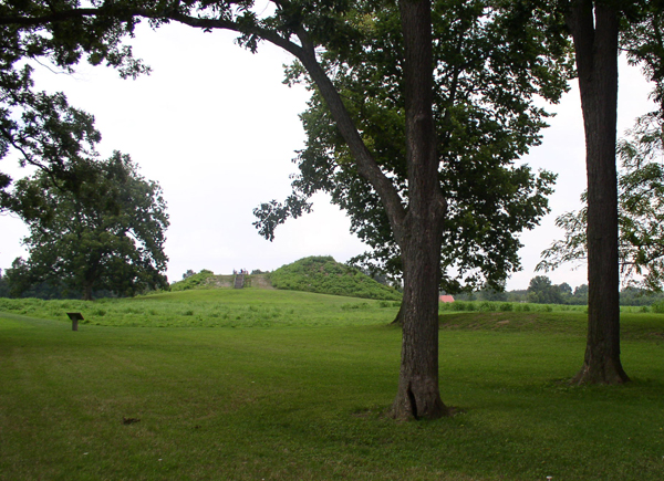 A photo from the Angel Mounds site in Evansville, Indiana, a Mississippian culture settlement.